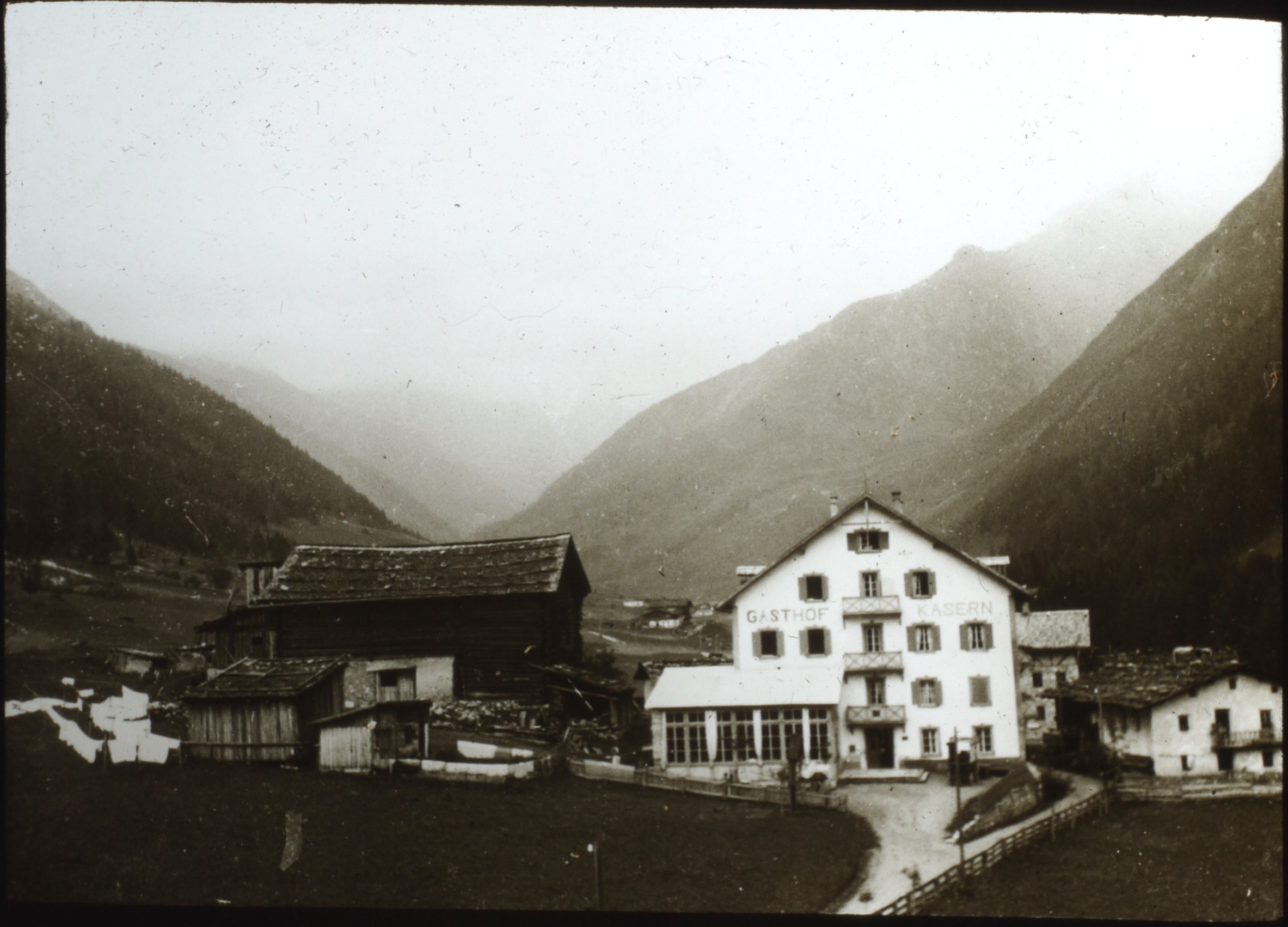 Aug 1912 - GASTHOF KASERN, Photo by A.E.Hasse, Baildon, Yorkshire. 6x6 glass plate diapositive